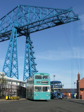 Representing the transition from the era of the front-engined rear platform buses operated with a conductor, to that of the rear-engined one man operated buses, preserved local examples of both types are pictured here in front of the Middlesbrough Transporter Bridge during the 2006 Teeside Running Day. Wearing their original identities, on the left is the newer Teesside Municipal Transport bus L544 (reg. JDC 544L), a 1973 Daimler Fleetline, while on the right is the older Middlesbrough Corporation bus 99 (reg. JDC 599), a 1958 Dennis Loline Mk1. Both buses have bodywork by Northern Counties; the Loline has a single entrance via an open rear platform, with 36 seats upstairs and 31 down, while the Fleetline has a closeable dual-door layout, with 47 upstairs & 27 down.